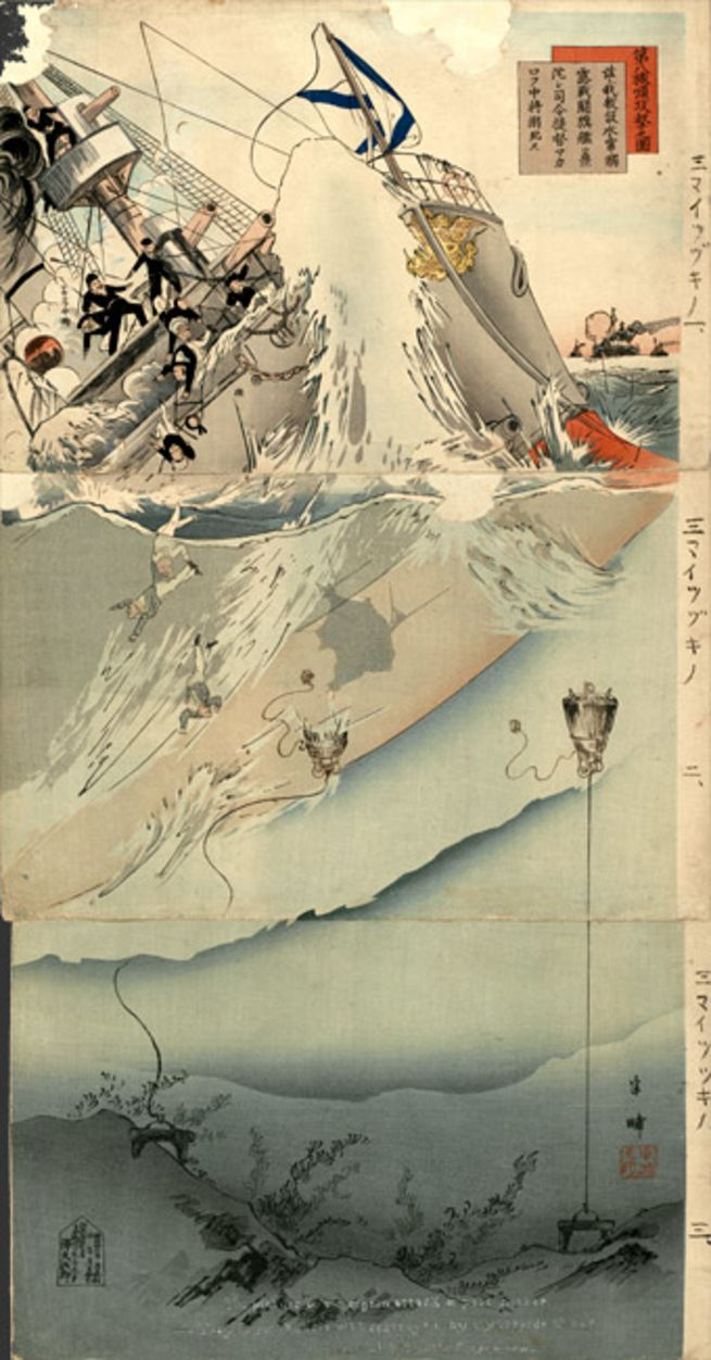 English translation of the original Japanese caption: "Picture of the Eighth Attack on Port Arthur. The Flagship of Russia Was Destroyed by the Torpedo of Our Navy and Admiral Makaroff Drowned". Explanation on MIT Visualizing Culture: "Yamada [sic] Hampō, an artist new on the scene who appears to have still been in his mid-teens, momentarily outdid the old master [i.e., Kobayashi Kiyochika] in terms of sheer innovation. In an unusual vertical triptych, Hampō created an underwater world where a torpedoed Russian warship sank through a field of floating mines."